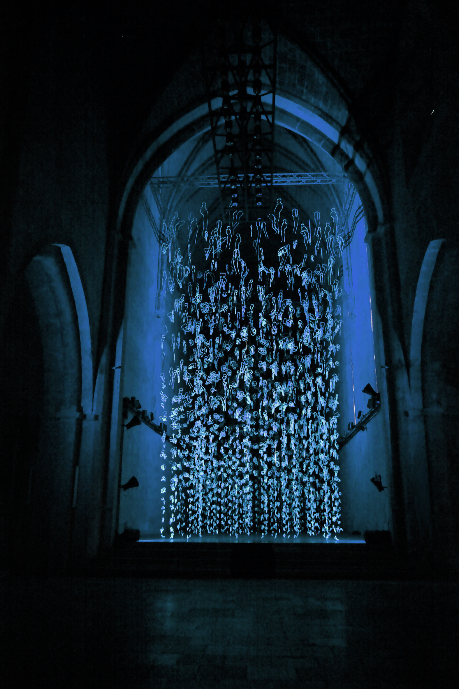 Marianne Maderna: Installation HUMANIMALS at Dominikanerkirche/Krems; Zeitkunst Niederösterreich 2013